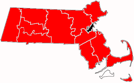 I created this image myself using the Paintbrush program. The original is located here and created by UniReb.